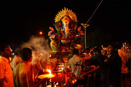 Priest Performing the puja before Lord Ganesha's idol immersion